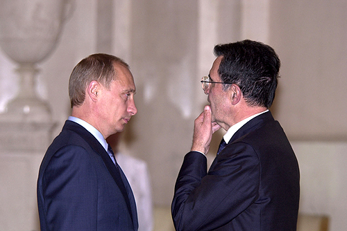 ST PETERSBURG. President Putin with European Commission President Romano Prodi.